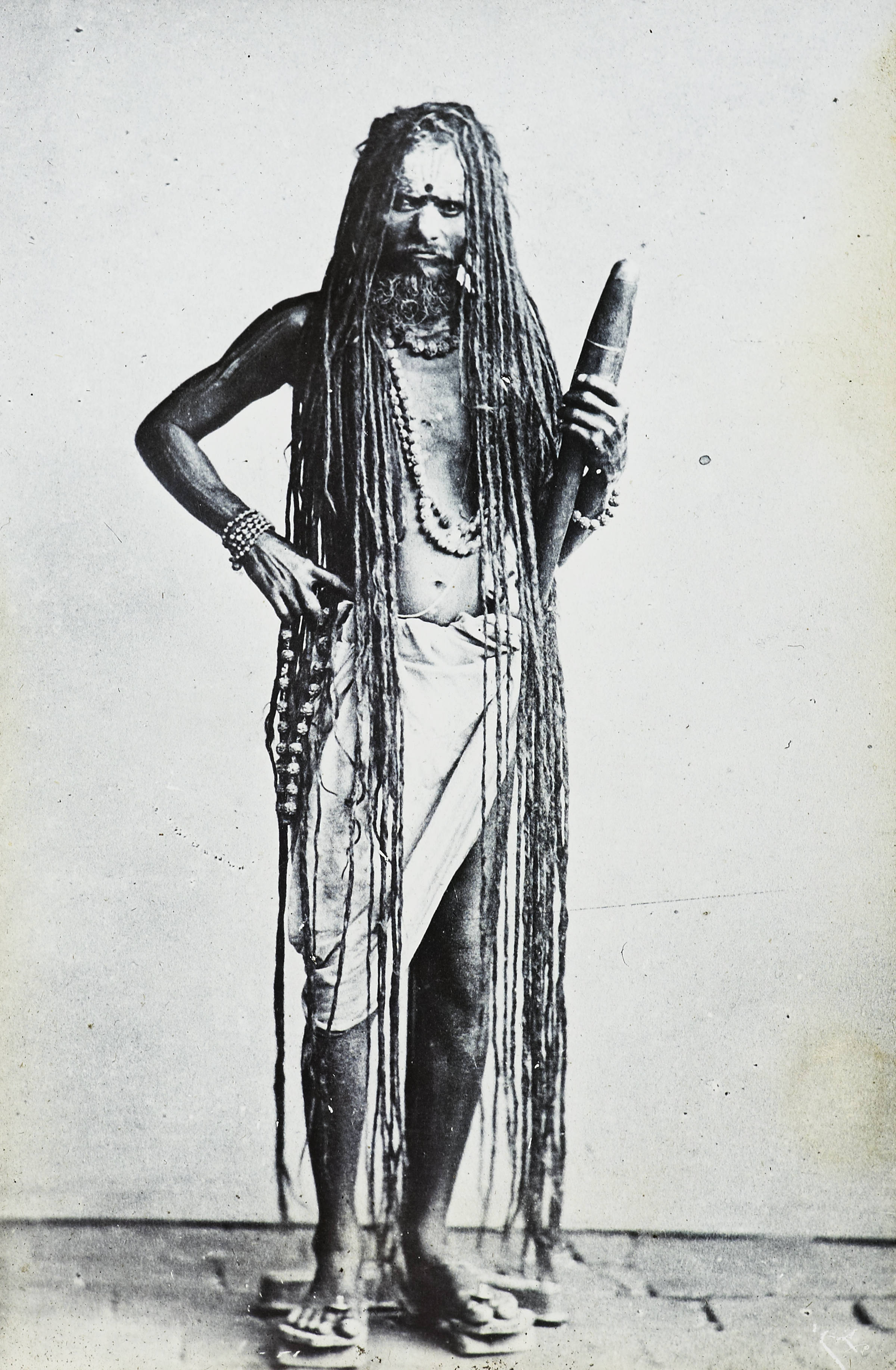 Sadhu with long hair, India, ca. 1920 Black and white lantern slide showing an older Indian gentleman, possibly a sadhu. A sadhu is an ascetic, wandering Hindu holy man. The man has braided hair down to his feet, wears prayer beads and beaded bracelets. He carries a wooden object. This slide comes from a collection created by missionaries from Regions Beyond Missionary Union, an interdenominational Protestant evangelical mission working in northeast India (Bihar and Orissa) and Nepal. Photographer: Unknown Filename: IMP-CSCNWW33-OS16-28.tif Coverage date: 1915/1925 Subject (unesco): Religious activities; Hinduism Part of collection: International Mission Photography Archive, ca.1860-ca.1960 Part of subcollection: Photographs from the Centre for the Study of World Christianity, University of Edinburgh, U.K., ca.1900-ca.1940s Repository name: Centre for the Study of World Christianity Archival file: Volume4/IMP-CSCNWW33-OS16-28.tif Repository address: The University of Edinburgh School of Divinity, New College, Mound Place, Edinburgh EH1 2LX, United Kingdom Geographic subject (country): India Format (aacr2): lantern slides 8.2 x 8.2cm Geographic subject (continent): Asia Rights: Contact the repository for details. Part of series: Regions Beyond Missionary Union. India uncaptioned slides (CSCNWW33/OS16) Repository Date created: 1915/1925 Publisher (of the digital version): University of Southern California. Libraries Subject (aat genre): portraits Format (aat): lantern slides; photographs Geographic subject (state): Bihar Access conditions: File: CSCNWW33/OS16/28 Subject (lcsh): Sadhus; Hinduism